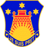 164th Infantry Regiment Distinctive Unit Insignia